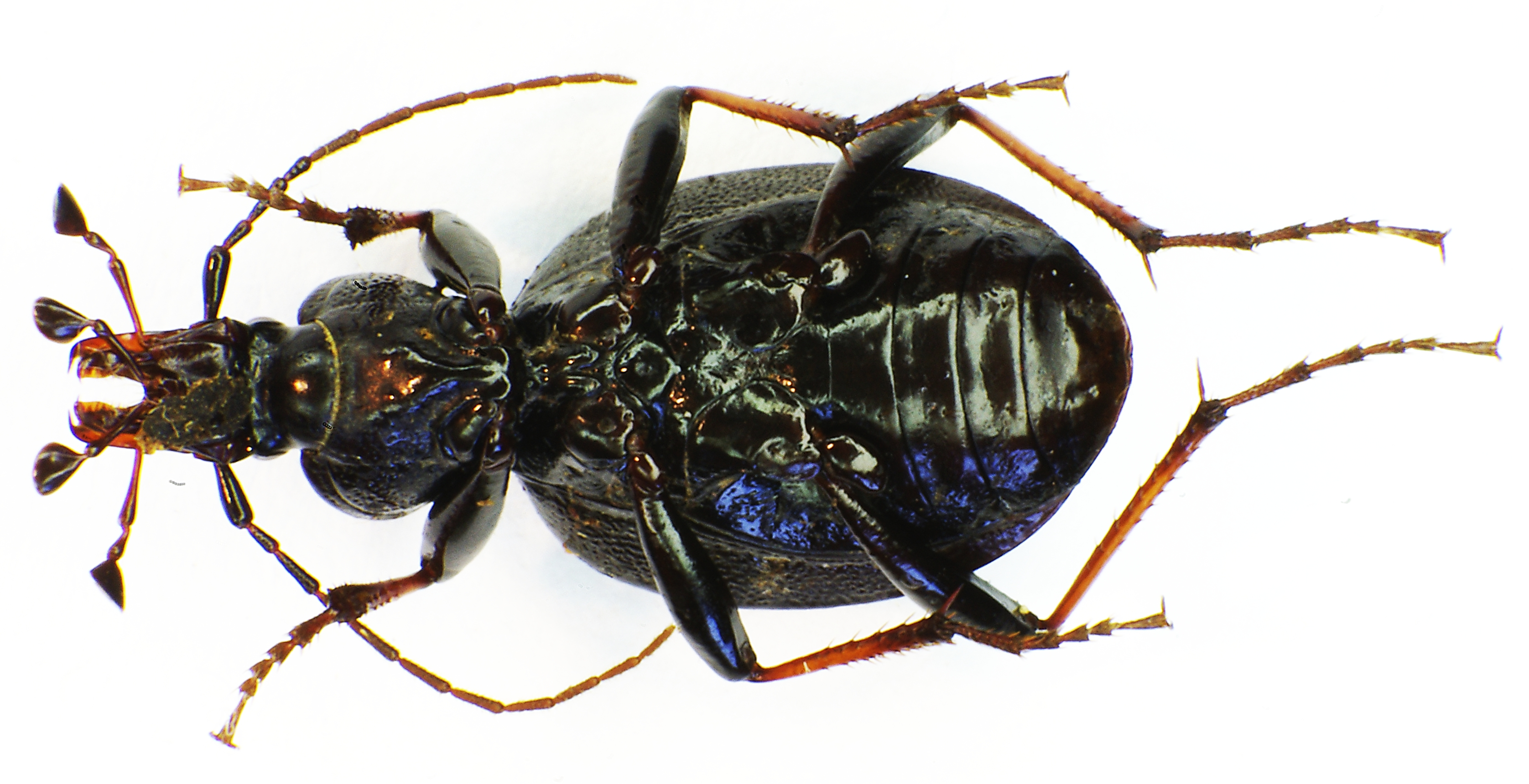 Underside of Cychrus attenuatus